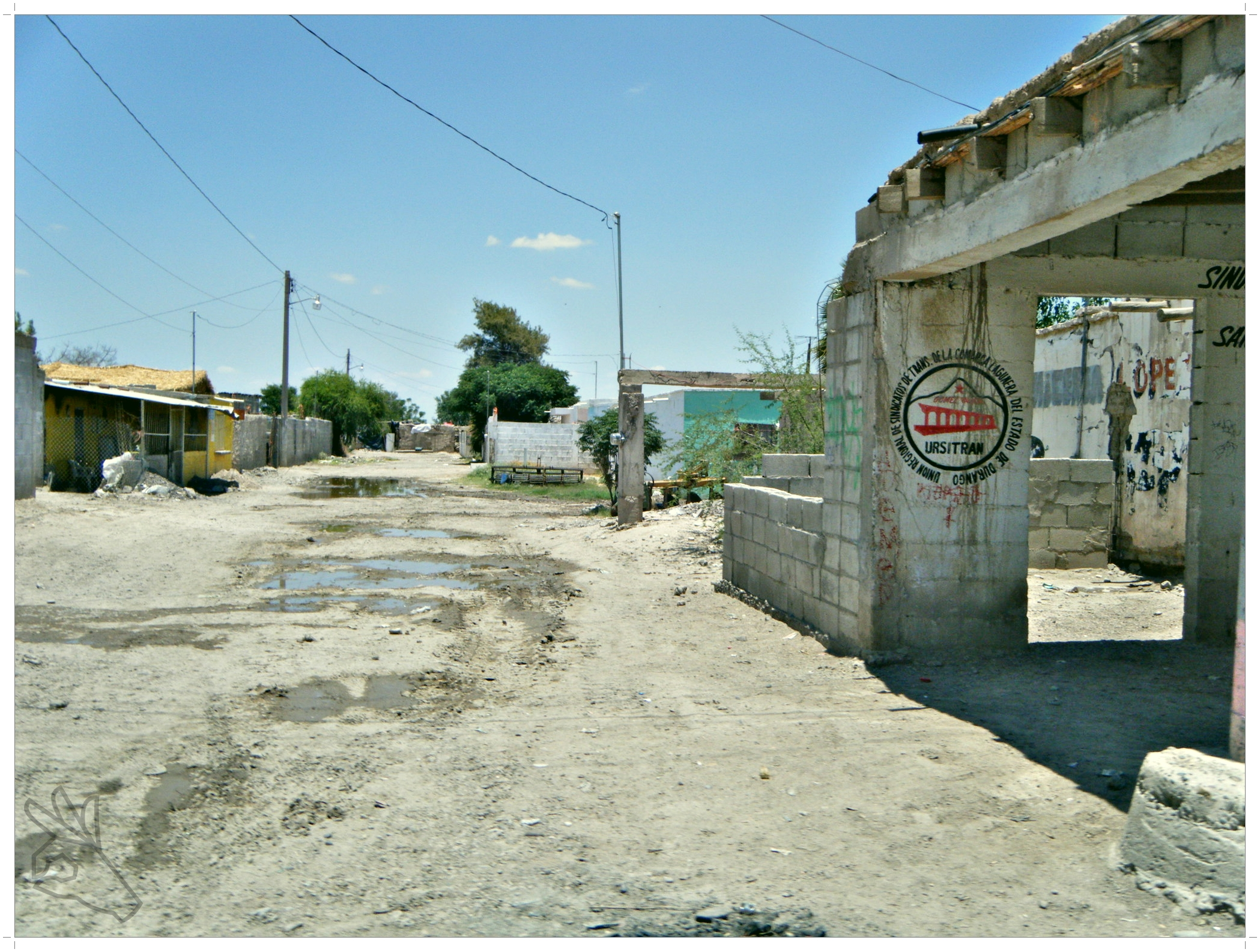 pueblo